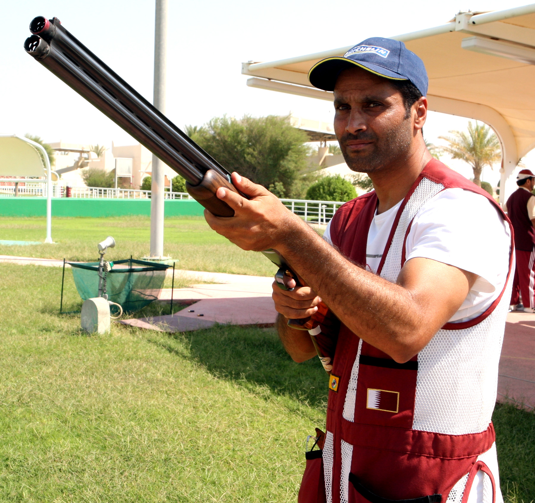 Original description from flickr: Qatari skeet shooter and ace rally champion Nasser Saleh Al Attiyah. Pic by Mohan